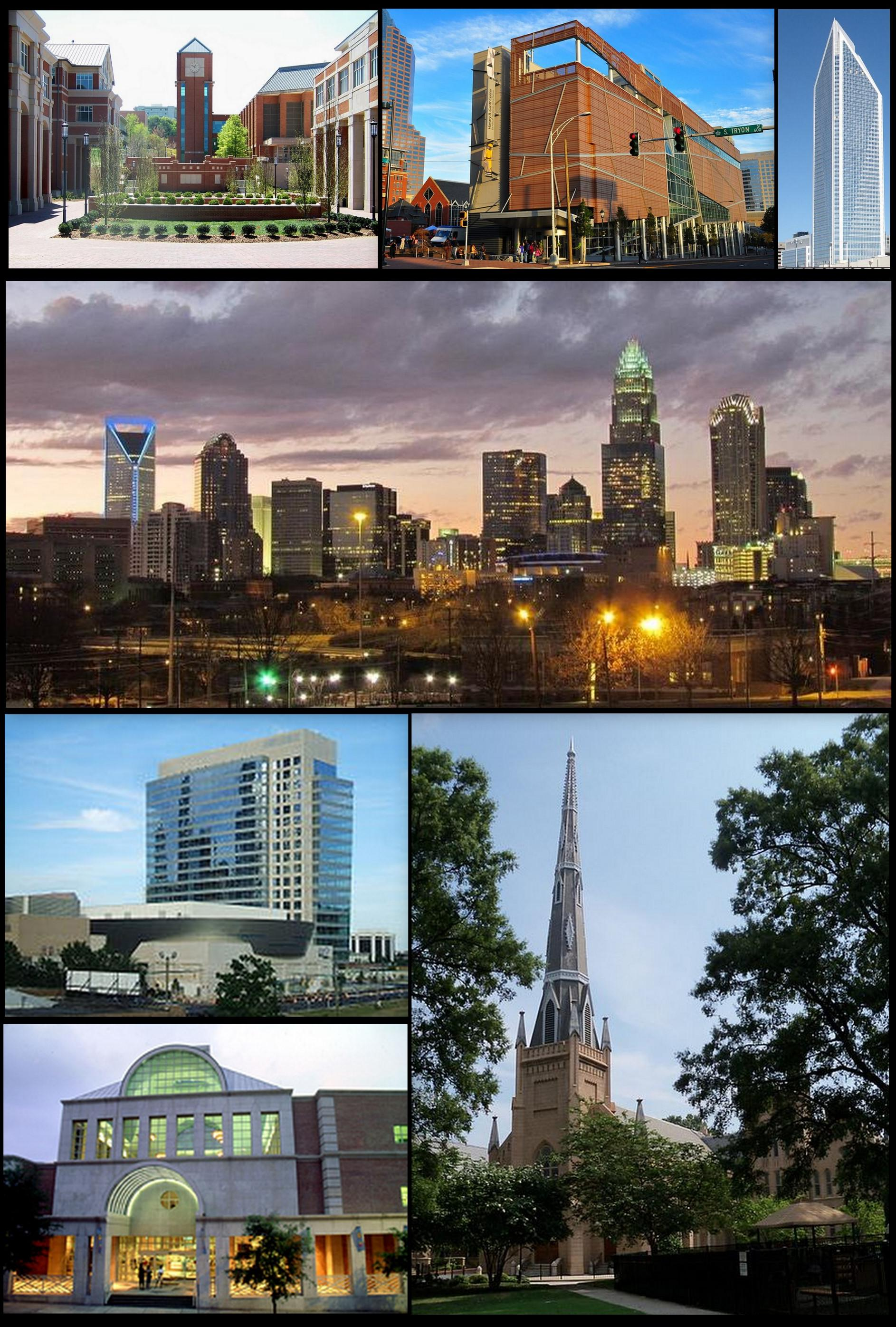 Collage of Charlotte from photos available on Wiki Commons File:Charlotte Skyline 2011 - Ricky W.jpg File:UNCCNewQuad.jpg File:Main library.jpg File:Harvey B. Gantt Center on Opening Day.jpg File:NHofF 5-09.JPG File:Duke Energy Center cropped.jpg